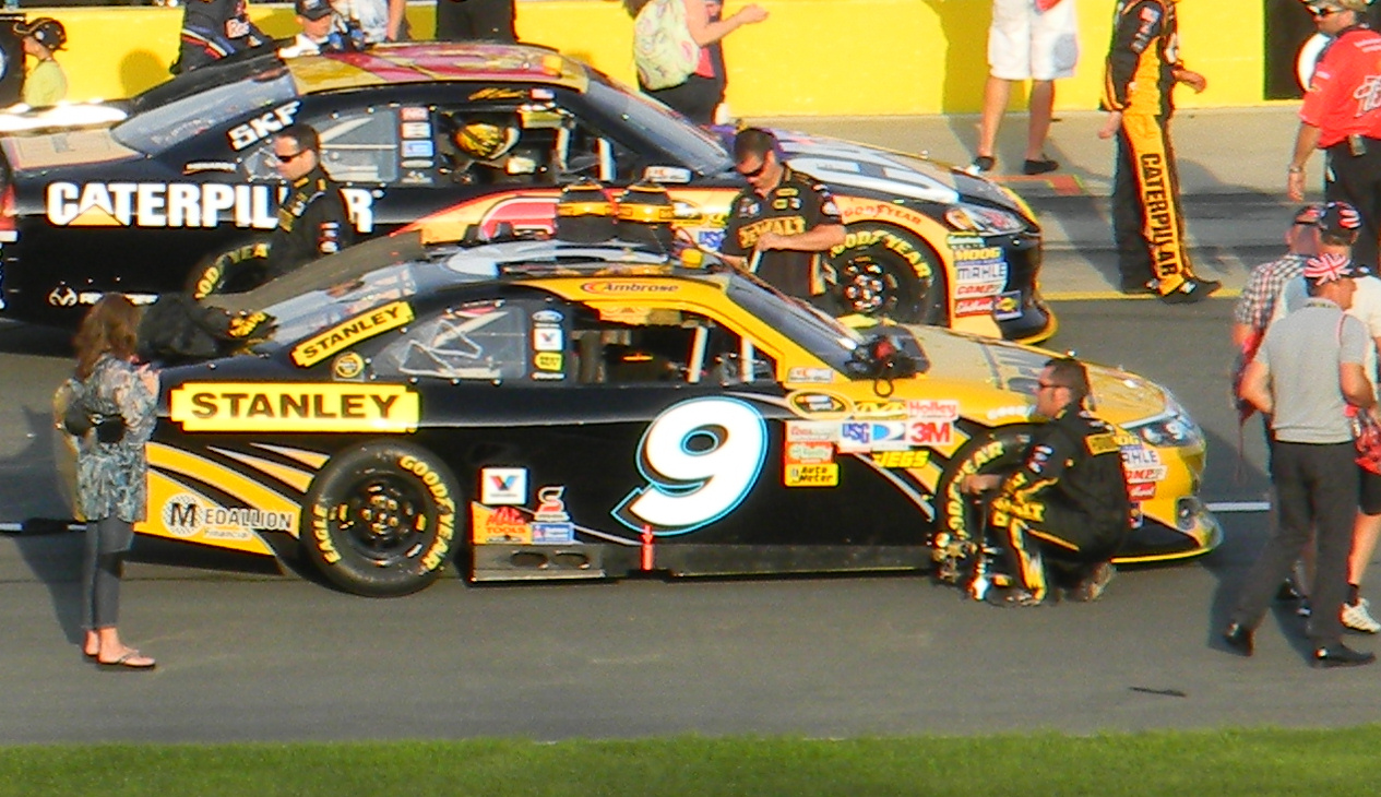 Marcos Ambrose's 2011 NASCAR Sprint Cup Series car before the 2011 NASCAR Sprint Showdown at Charlotte Motor Speedway